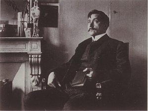 Grégoire Le Roy (1862-1941) - Flemish (Belgian) poet and writer writing in French; also: graphic designer, painter and art critic.